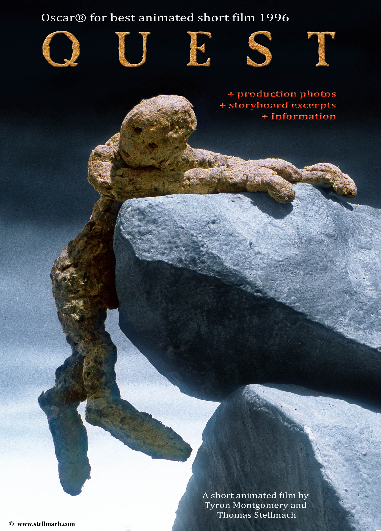 poster of the animated short film QUEST